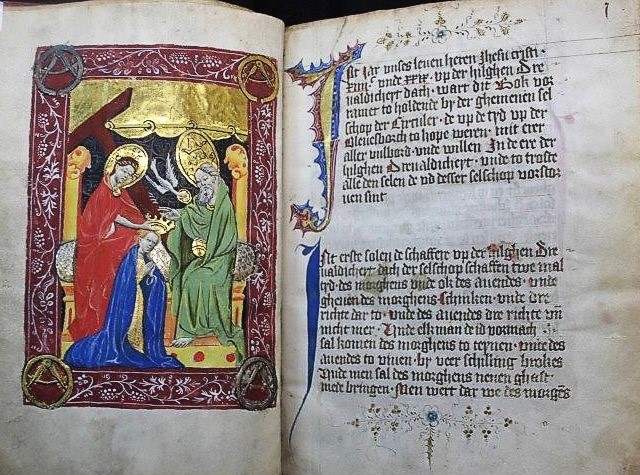 1426 statutes of the Zirkelgesellschaft (AHL, ZG 1) with a miniature showing the Holy Trinity crowning the virgin Mary